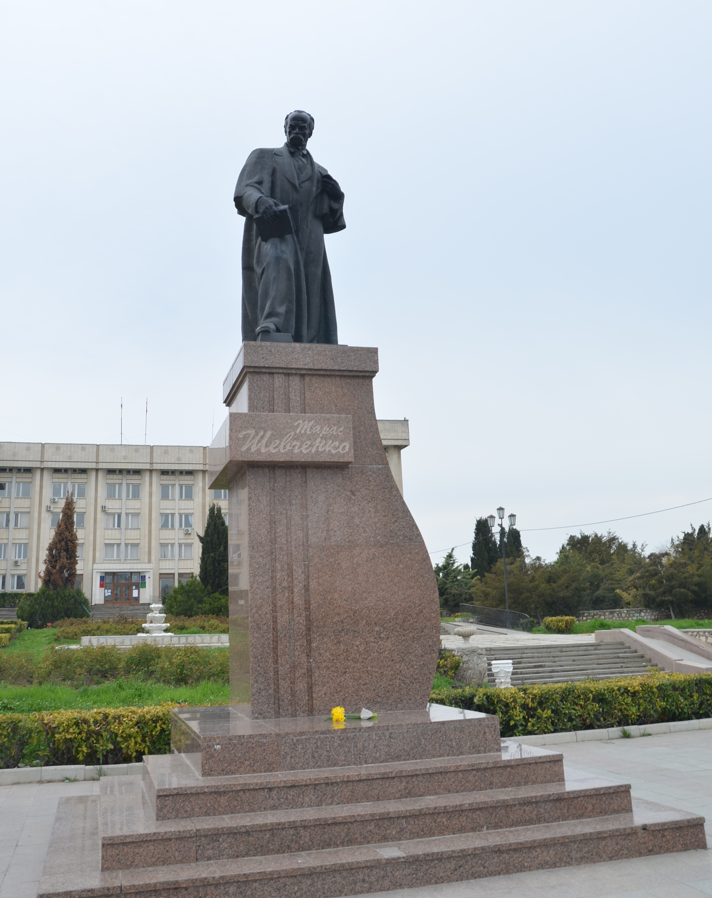 Monument to Taras Shevchenko, Sevastopol